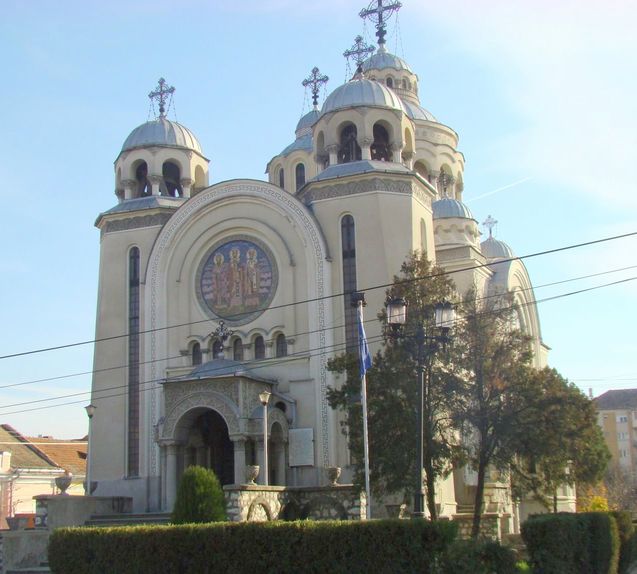 Orthodox cathedral in Aiud, Alba county, Romania